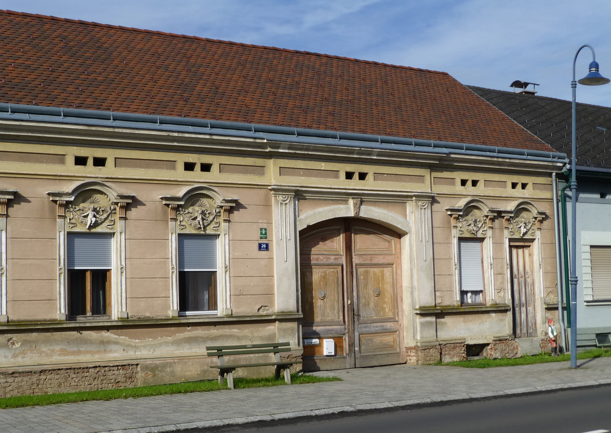 Traditional house, decorated, main road E66, Rudersdorf, South-Burgenland, Austria. House # 26.